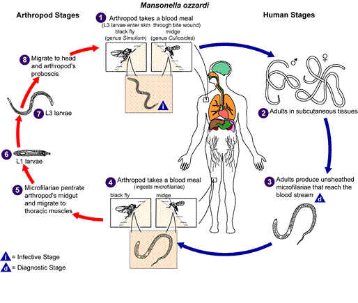 Filariasis Life cycle of Mansonella ozzardi During a blood meal, an infected arthropod (midges, genus Culicoides, or blackflies, genus Simulium) introduces third-stage filarial larvae onto the skin of the human host, where they penetrate into the bite wound. They develop into adults that commonly reside in subcutaneous tissues. Adult worms are rarely found in humans. The size range for females worms is 65 to 81 mm in length and 0.21 to 0.25 mm in diameter but unknown for males. Adults worms recovered from experimentally infected Patas monkeys measured 24 to 28 mm in length and 70 to 80 μm in diameter (males) and 32 to 62 mm in length and .130 to .160 mm in diameter (females). Adults produce unsheathed and non-periodic microfilariae that reach the blood stream. The arthropod ingests microfilariae during a blood meal. After ingestion, the microfilariae migrate from the arthropod's midgut through the hemocoel to the thoracic muscles. There the microfilariae develop into first-stage larvae and subsequently into third-stage infective larvae. The third-stage infective larvae migrate to arthropod's proboscis and can infect another human when the arthropod takes a blood meal.